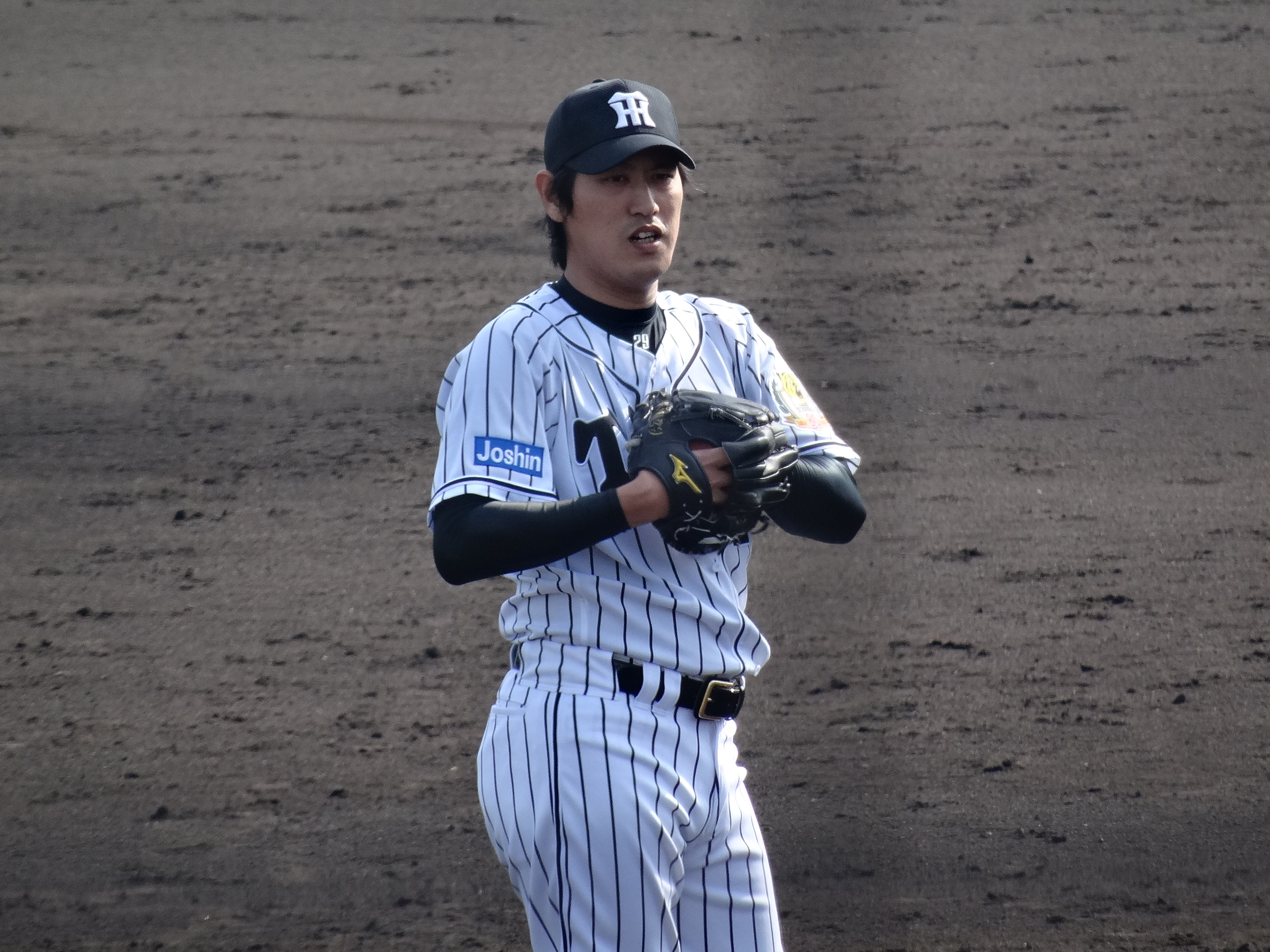 Tatsuya Kojima, pitcher of the Hanshin Tigers, at Hanshin Naruohama Baseball Ground.